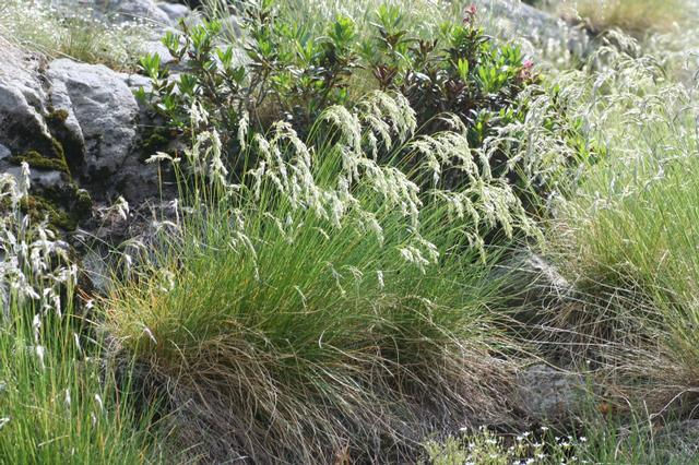 (en) Festuca eskia, a photography originating of the internet site The accord of the autor, H. Brisse, is here. (fr) Festuca eskia, une photographie issue du site internet L'accord de l'auteur, H. Brisse, se situe ici.